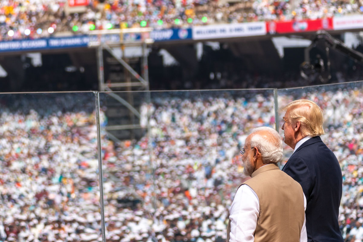 President Donald J. Trump and Indian Prime Minister Narendra Modi stand together on stage before a cheering crowd at the Namaste Trump Rally Monday, Feb. 24, 2020, at the Motera Stadium in Ahmedabad, India. (Official White House Photo by Shealah Craighead)